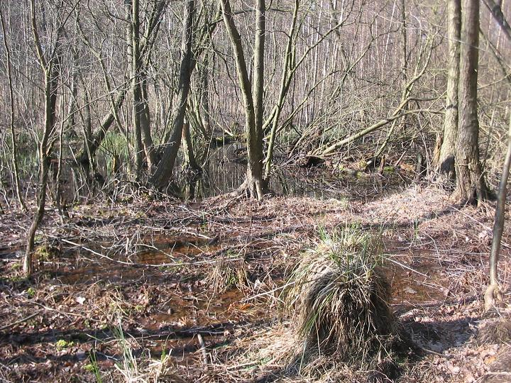 Protected area Pechpfuhl (german for: pitchmurkypool (?)) in Ludwigsfelde. Ludwigsfelde is a town in the district Teltow-Fläming, state Brandenburg, Germany.